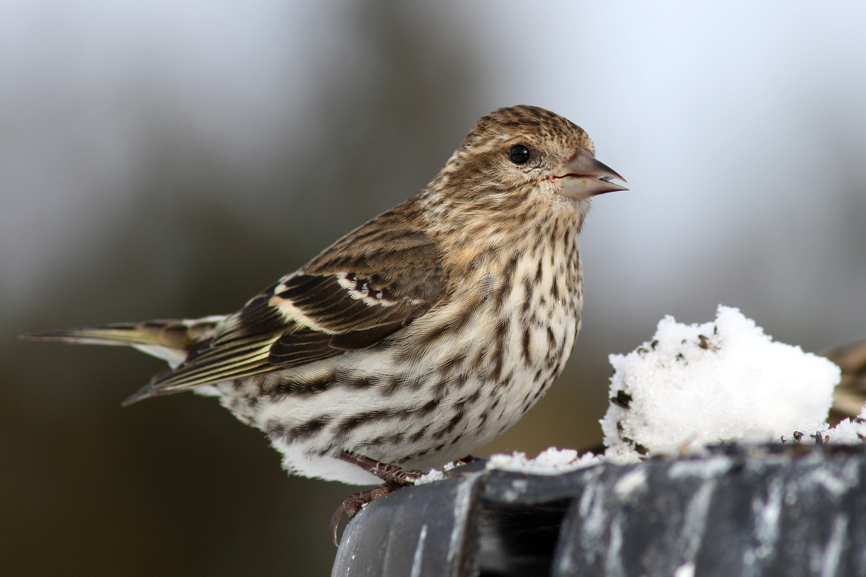 Carduelis pinus